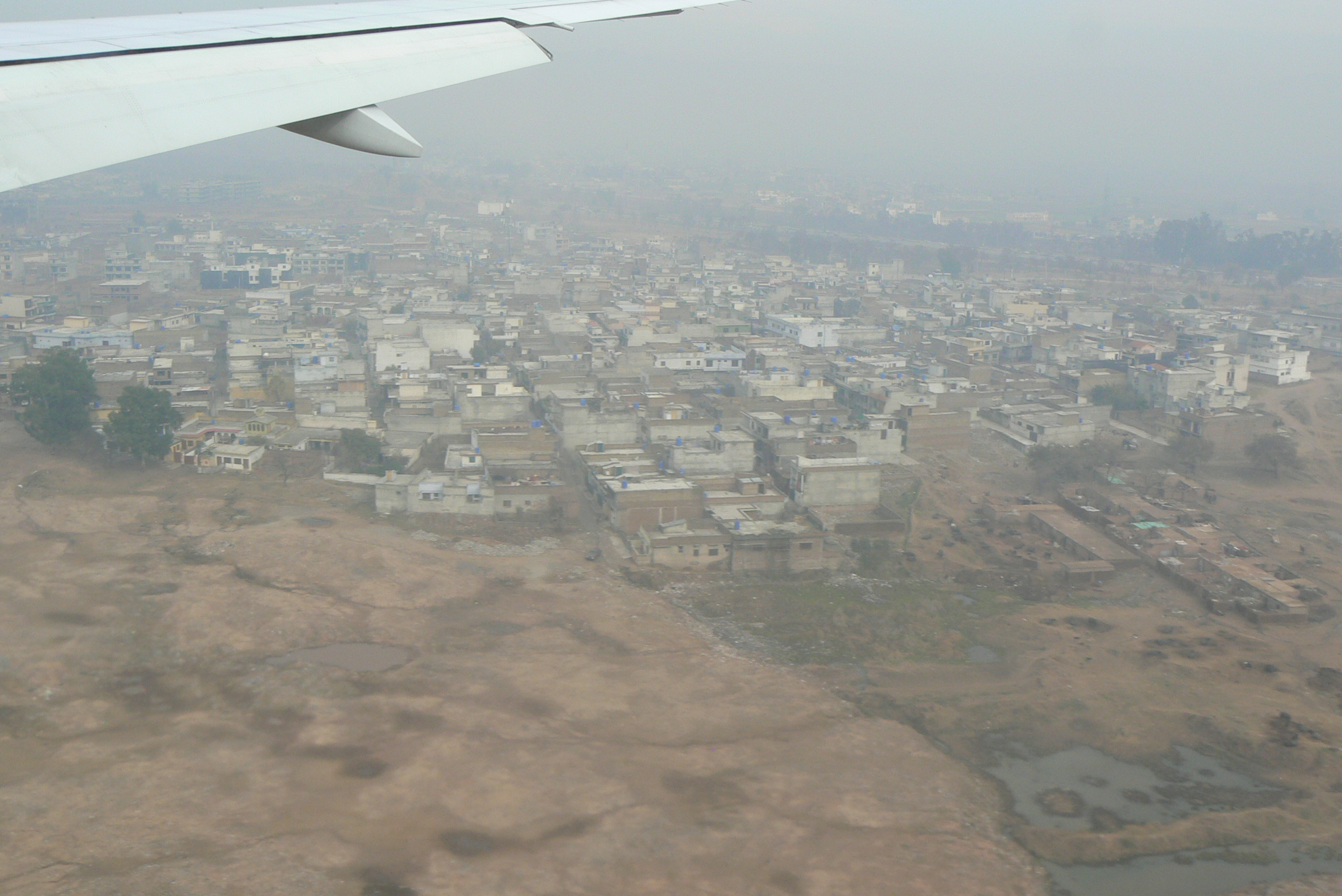 Yeah not very exciting. Looks kinda poor.